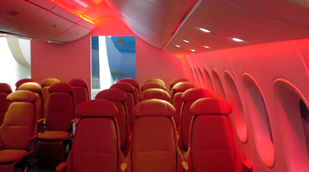 boeing.787.seattle.interior